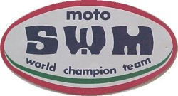 SWM logo